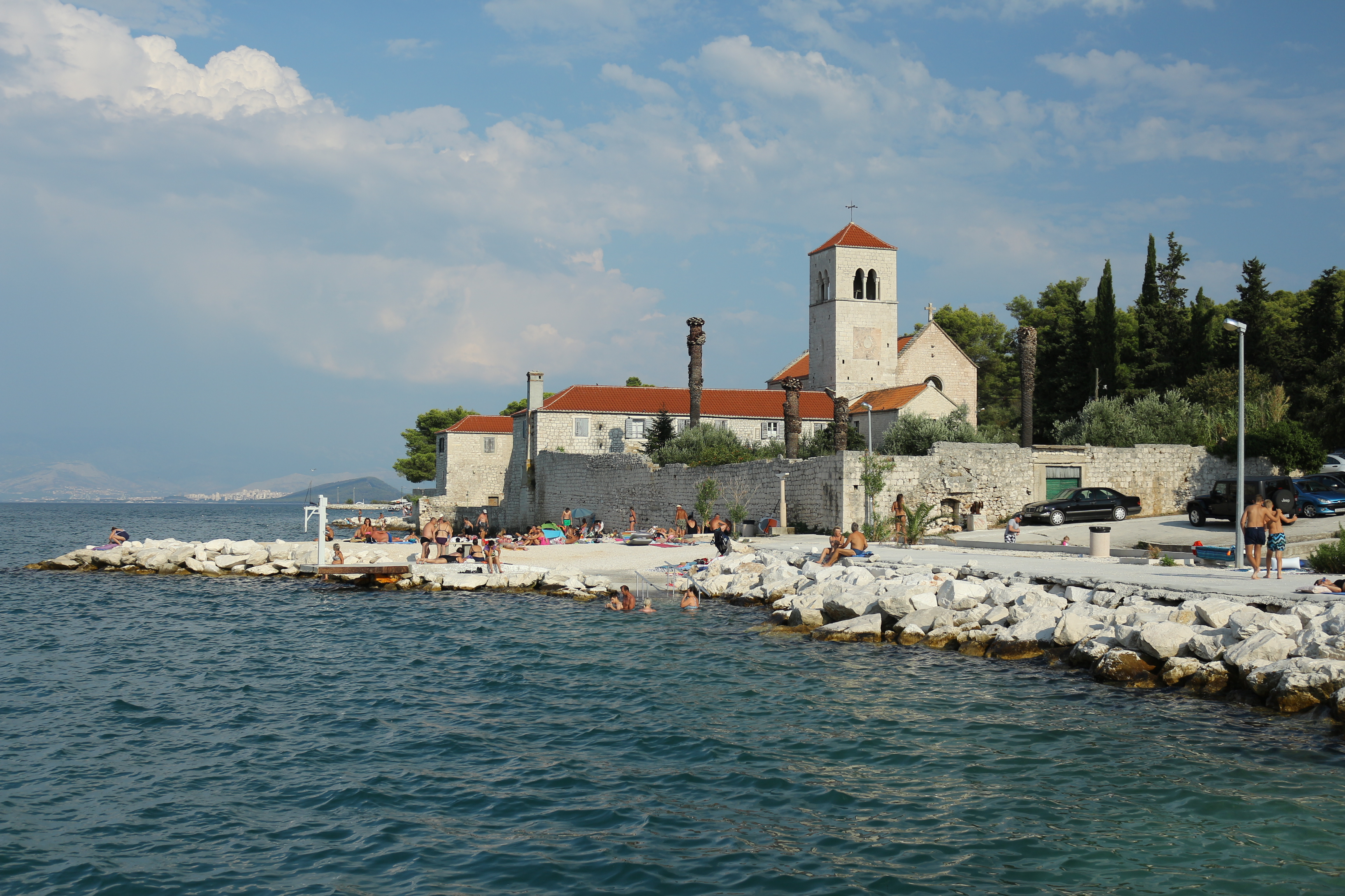 Dominican monastery with the church of the Holy Cross, Arbanija, Čiovo Island, Croatia